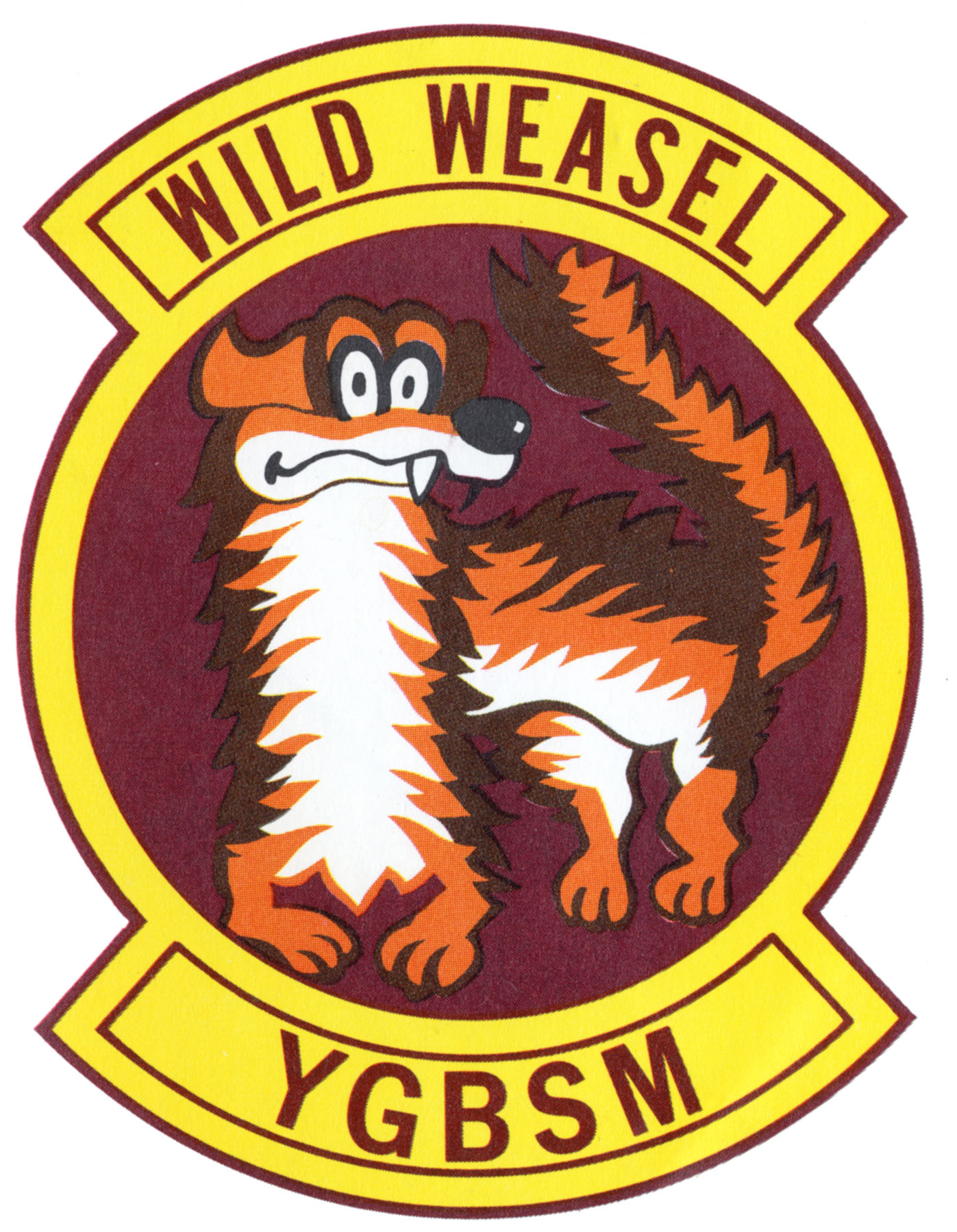 A weasel, nicknames Willie, figured prominently in many official and unofficial Wild Weasel patches and logos.